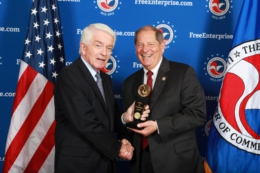 Congressman Bob Turner wins award from us chamber of commerce